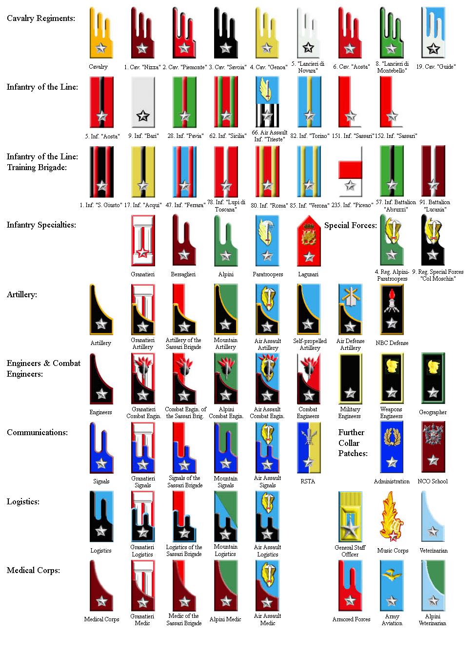 The Collar Stripes of the Italian Army. Made by myself. user:noclador